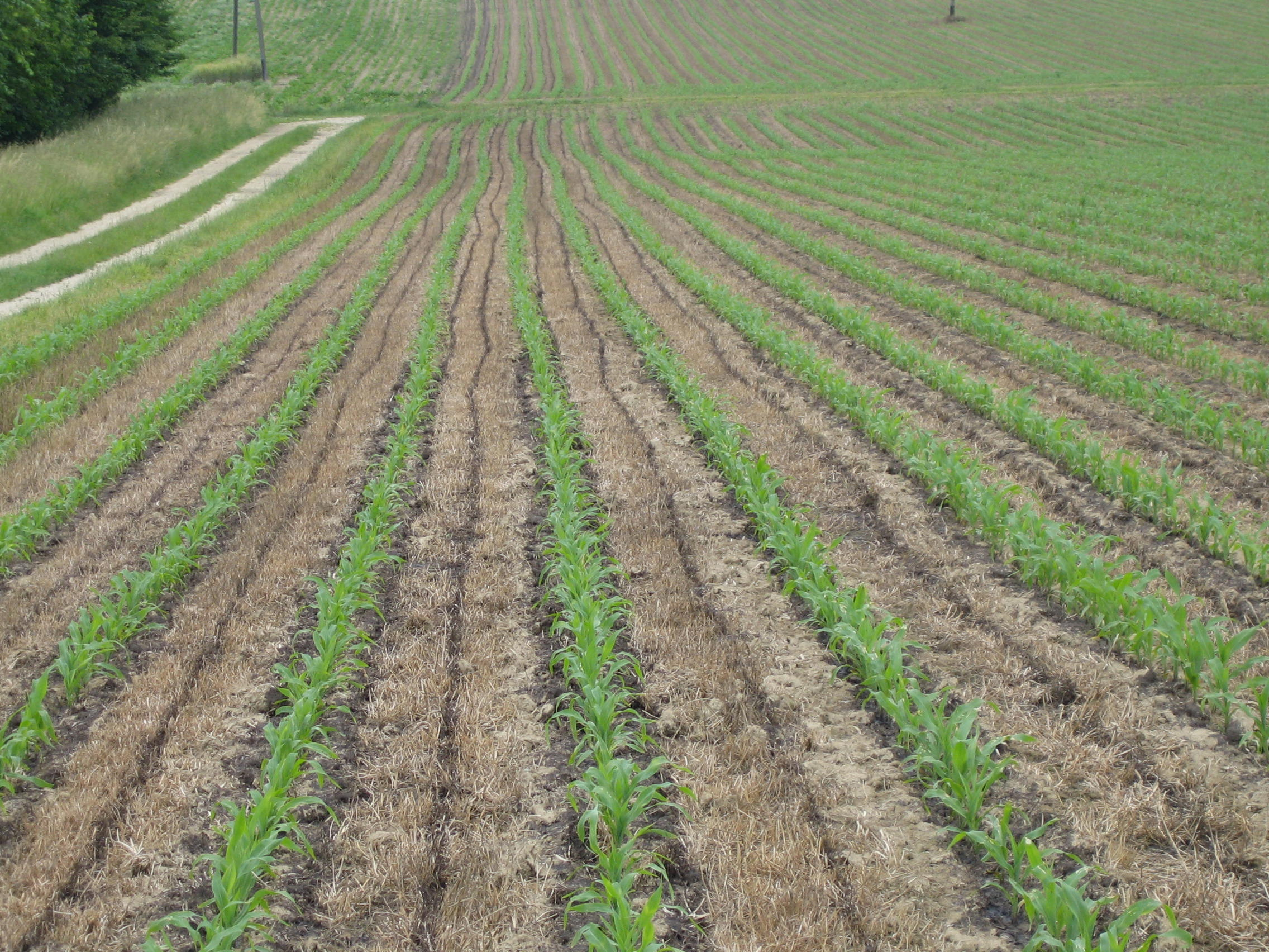 Cornfield, canton of Bern, Switzerland